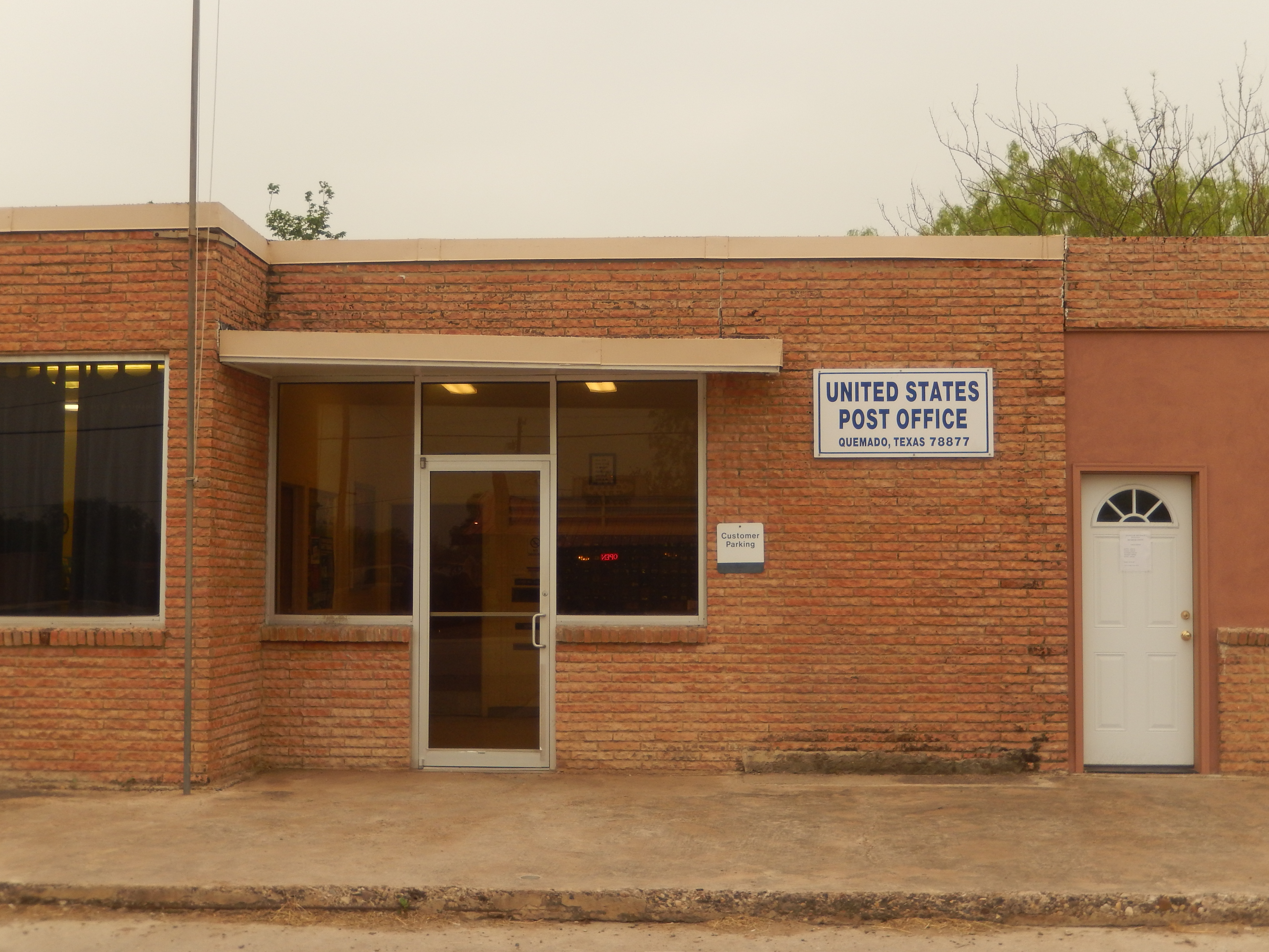 I took photo of Post Office at Quemado, TX, with Nikon camera.